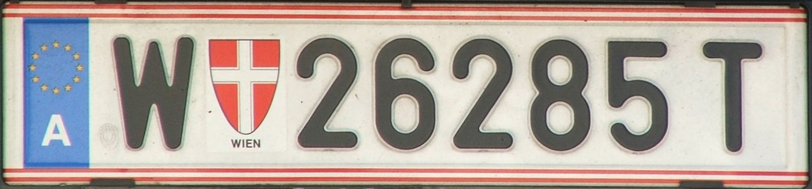 Registration plate from Vienna - capital of Austria